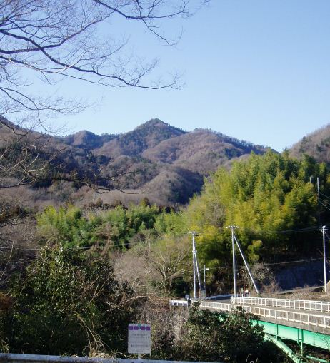 Mount Takahata (Takahatayama, 981.9 m) in Yamanashi Prefecture, Japan, viewed from the north